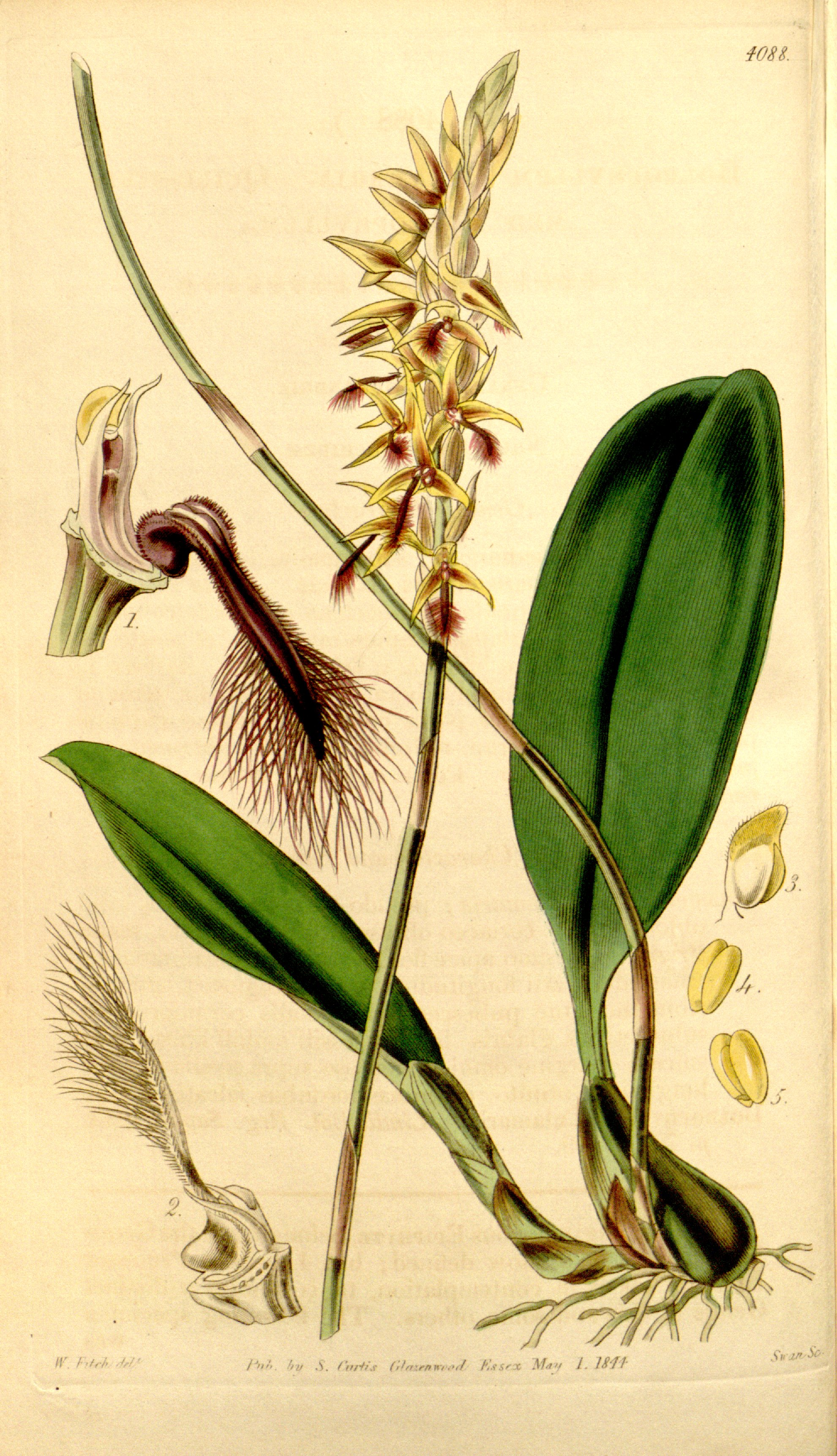 Illustration of Bulbophyllum saltatorium var. calamarium (as syn. Bulbophyllum calamarium, spelled Bolbophyllum calamaria)